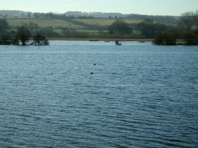 Wilstone Reservoir Wilstone reservoir is approximately rhomboid in shape with an angled spit of land roughly parallel to the NW & NE sides (see the 1:25000 map to see what I mean). However with the water level as high as this most of that spit is covered in water such that only some of the trees that mark its existence can be seen to left and right of the image. The little wooden structure a little to the right of centre probably marks the apex of the angled spit.